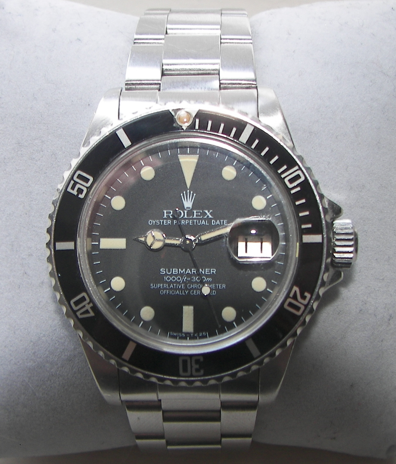 Filename